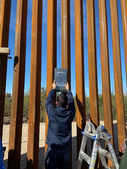 Tweet by Rep. Paul Gosar (R), Jan 10, 2020:In Yuma, Arizona @DHS_Wolf unveiled newly completed sections of the border wall.